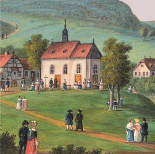 Pilgrimage church Gimbach 1813